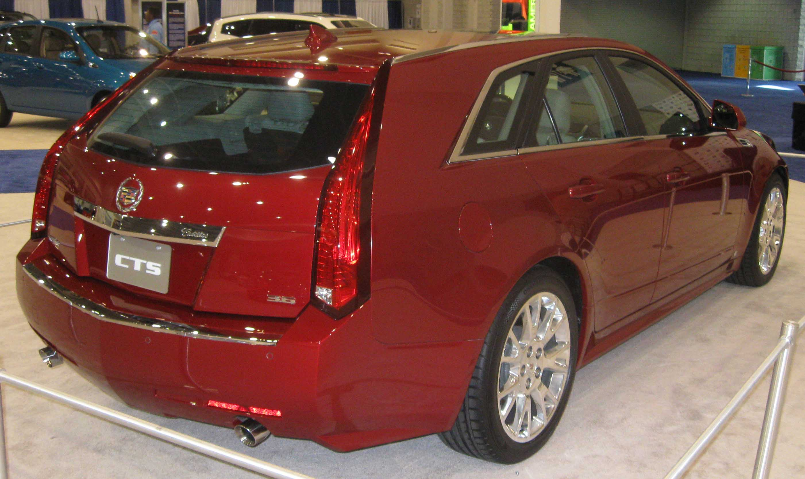 2010 Cadillac CTS photographed at the 2009 Washington DC Auto Show.